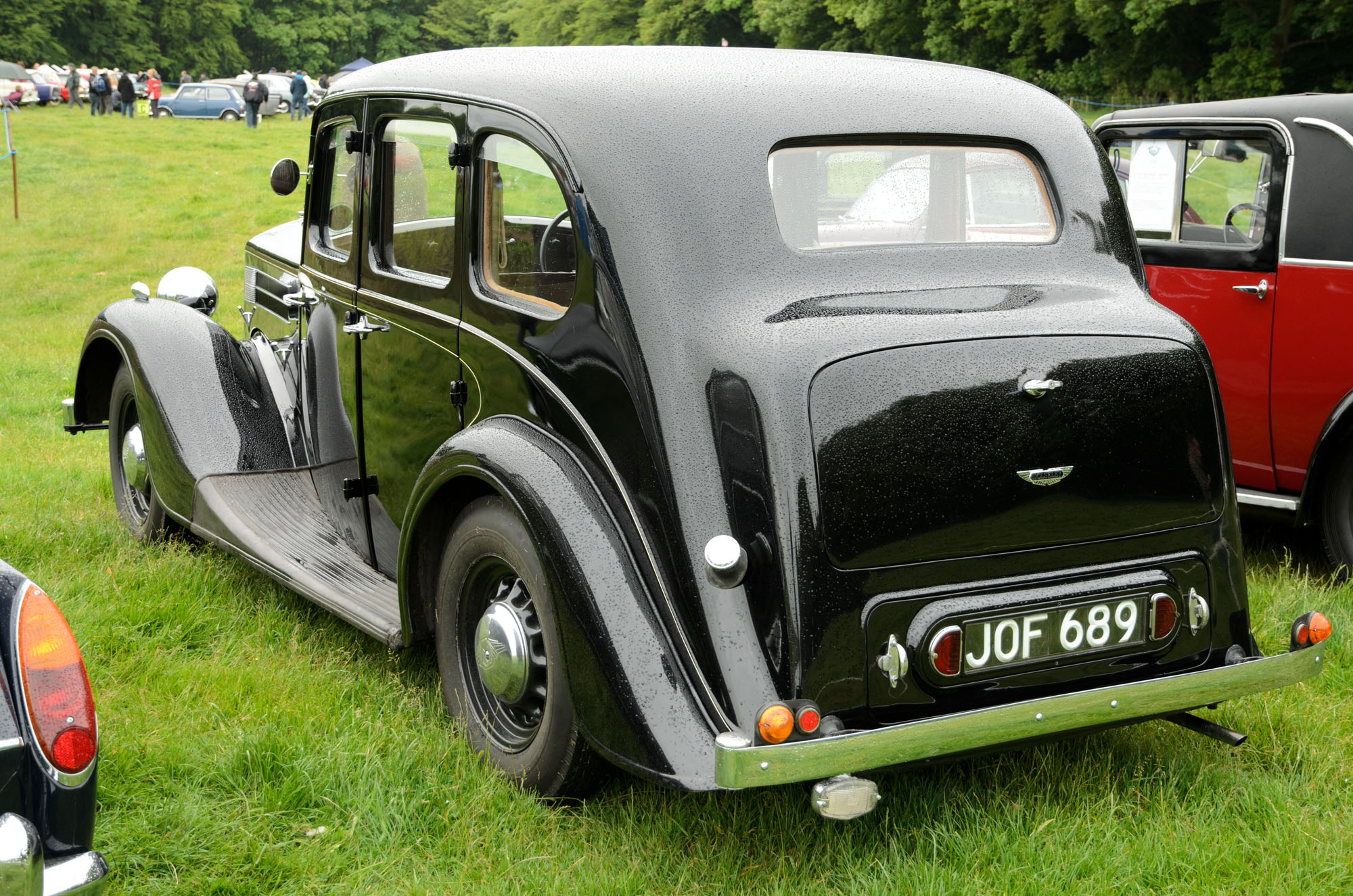 1948 Wolseley 14-60 saloon (DVLA) first registered 2 November 1948, 1818cc Hoghton Tower Classic Car Show 14/06/2015